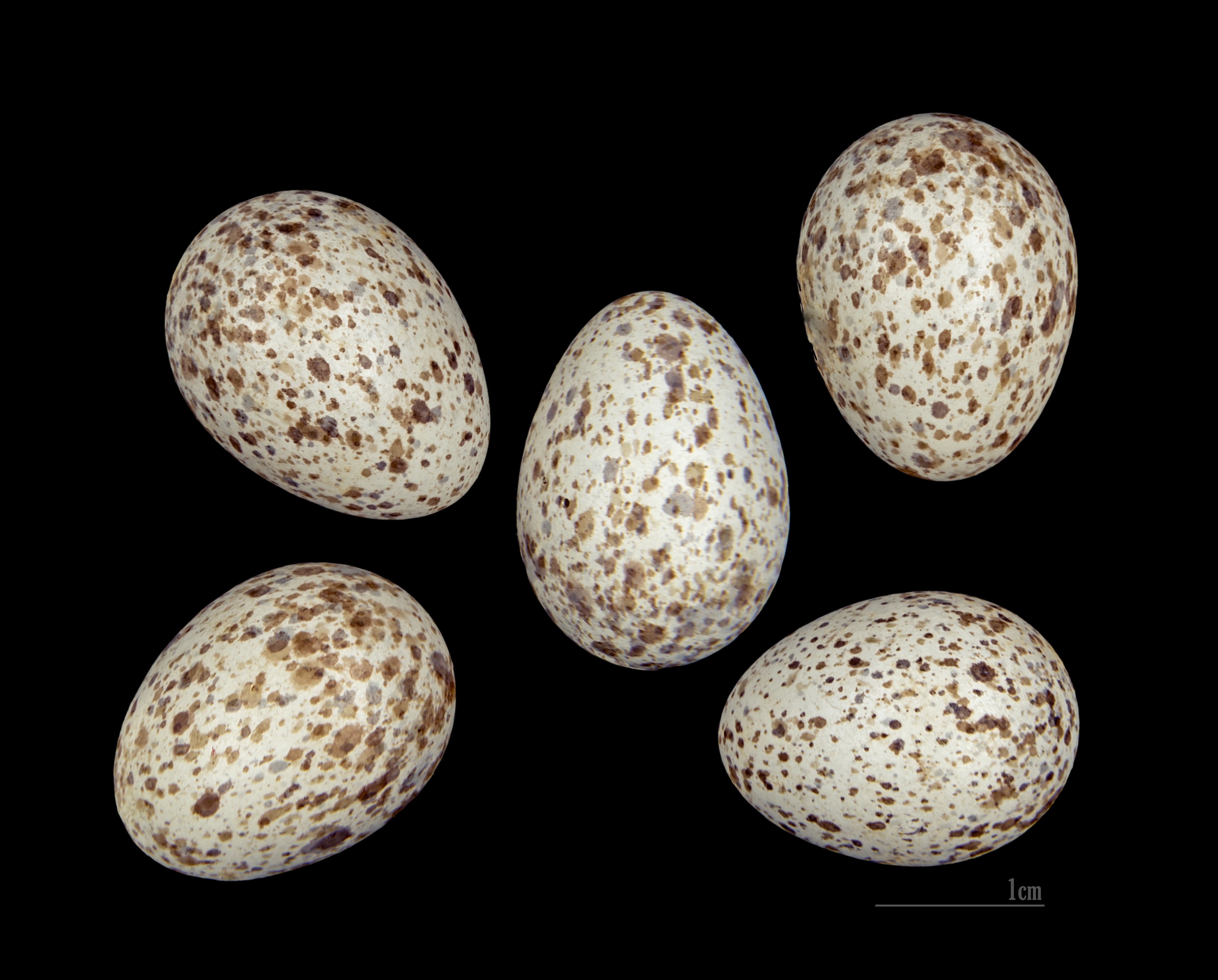 Egg of Thekla Lark - Collection of Jacques Perrin de Brichambaut